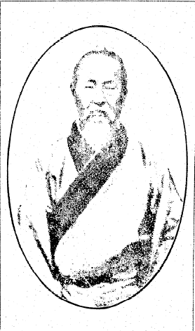 Ie Chōchoku (1818 - 1896)